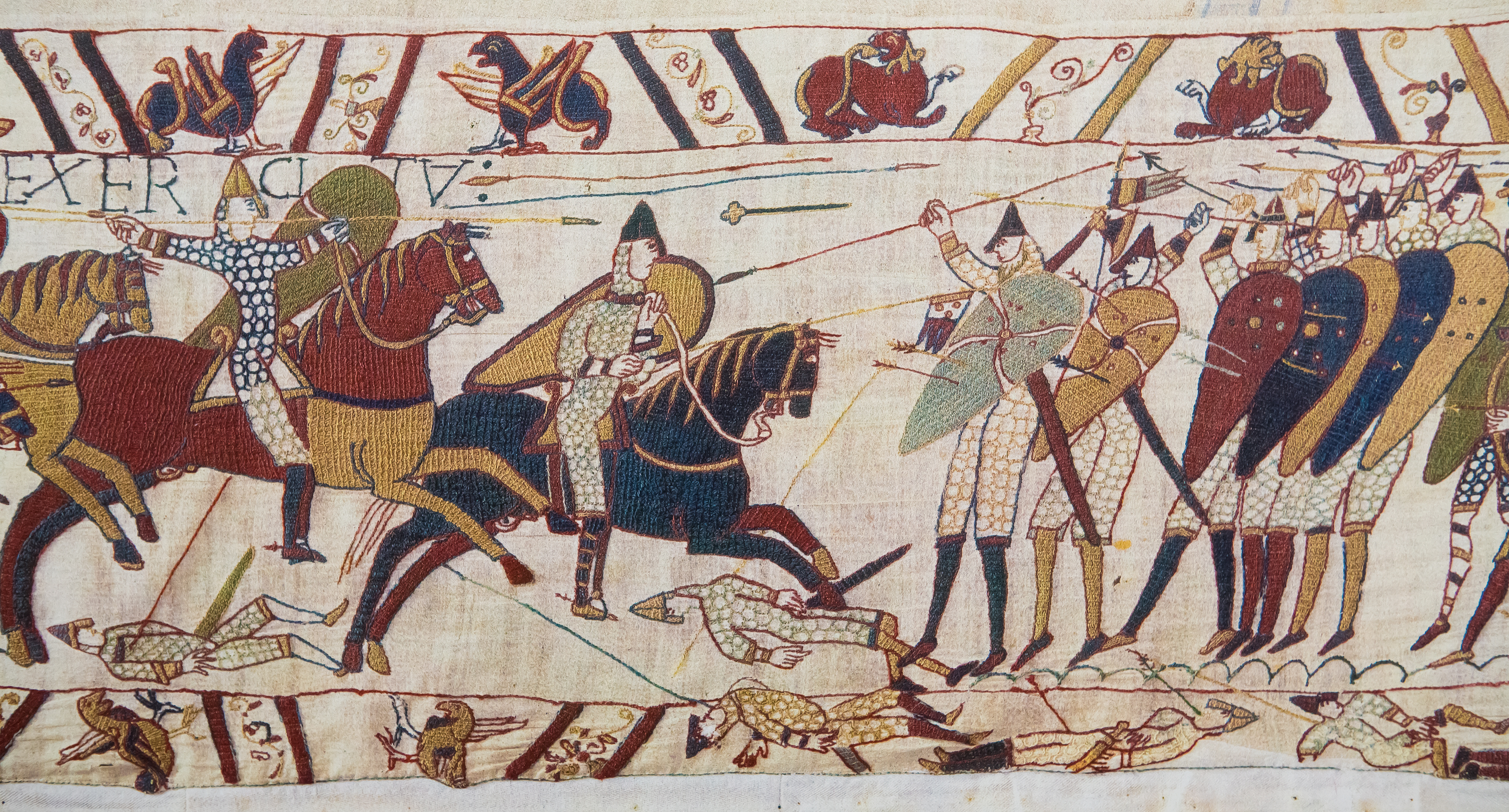 Bayeux Tapestry (detail)